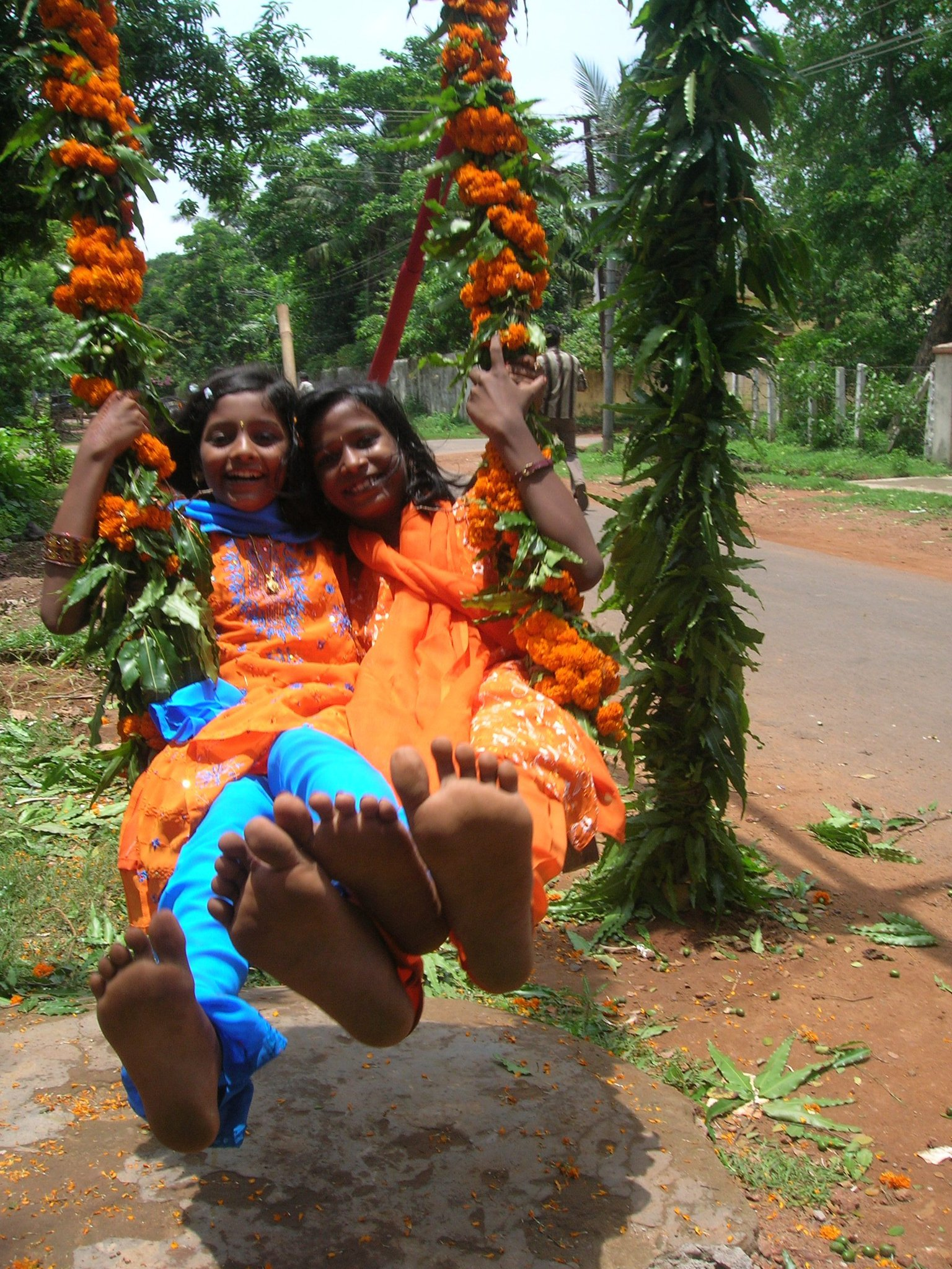 Raja Parba or Mithuna Sankranti(Odia: ରଜ ପର୍ବ) is a four day long festival and the second day signifies beginning of the solar month of Mithuna from, which the season of rains starts. It inaugurates and welcomes the agricultural year all over Orissa, which marks, through biological symbolism, the moistening of the sun dried soil with the first showers of the monsoon in mid June thus making it ready for productivity.